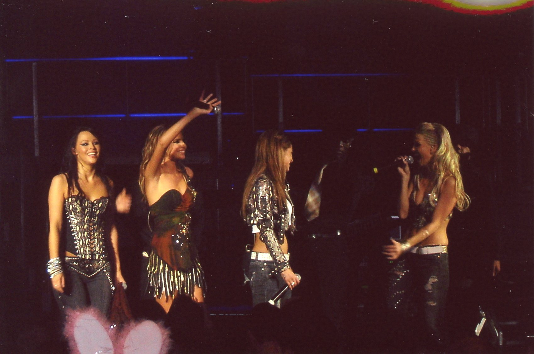 Girls Aloud - Hammersmith Apollo 290505 (17)